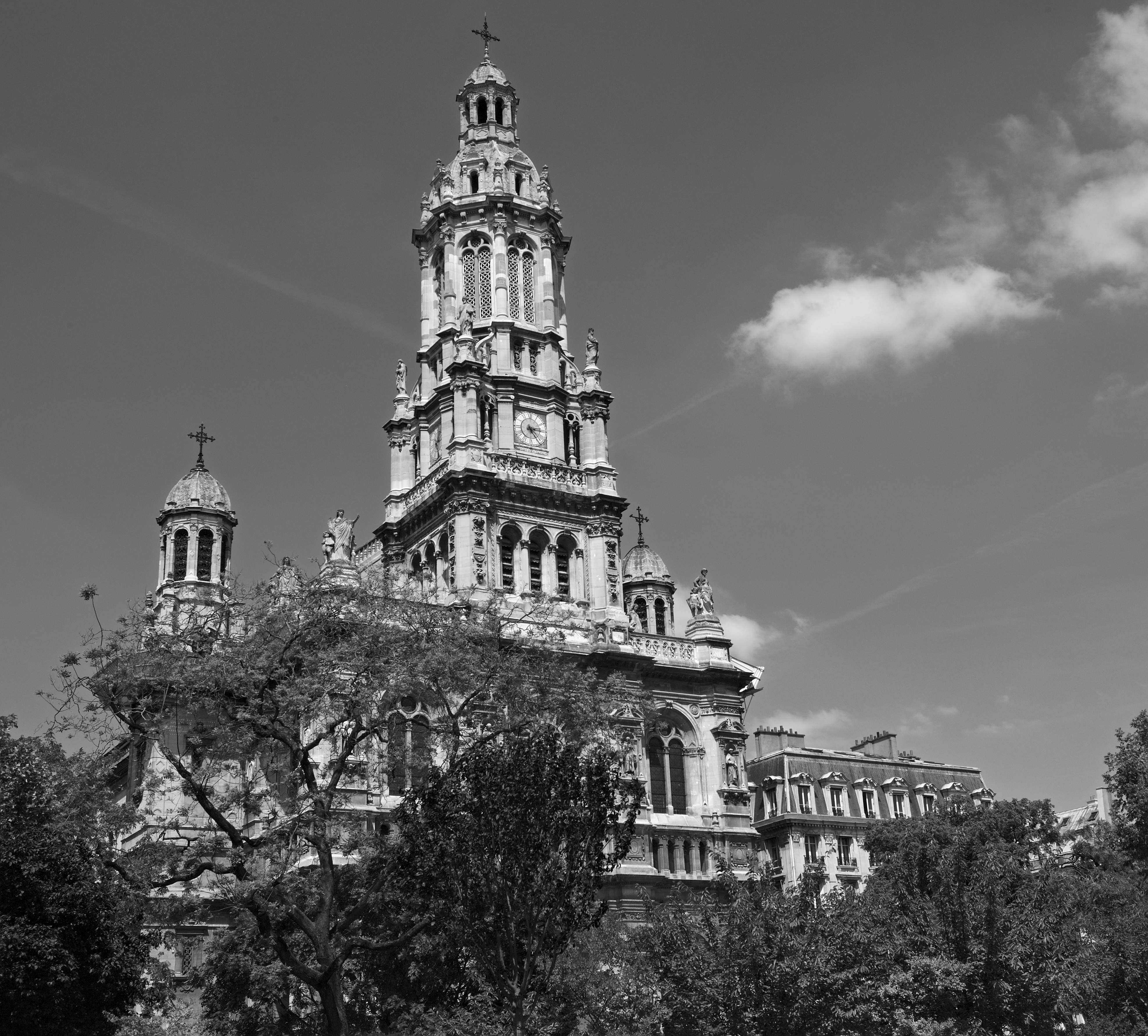 The upper portion of the Église de la Sainte-Trinité, emerging from preceeding foliage, as viewed from the south. Shot with a Canon 1DS Mark III and processed with darktable.